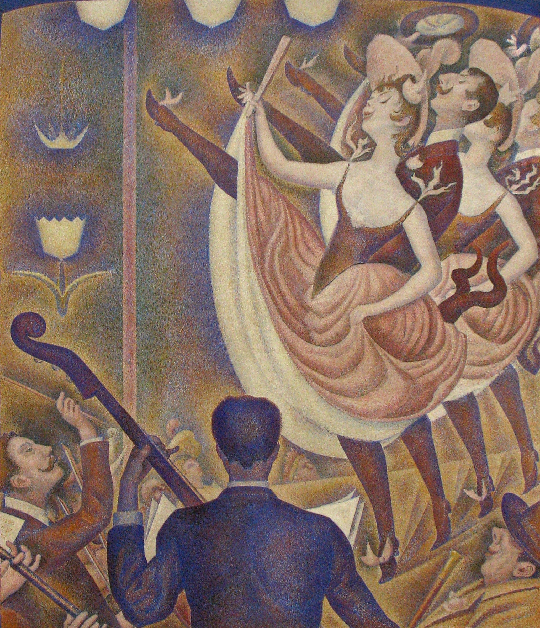 Le Chahut (The Can-can)